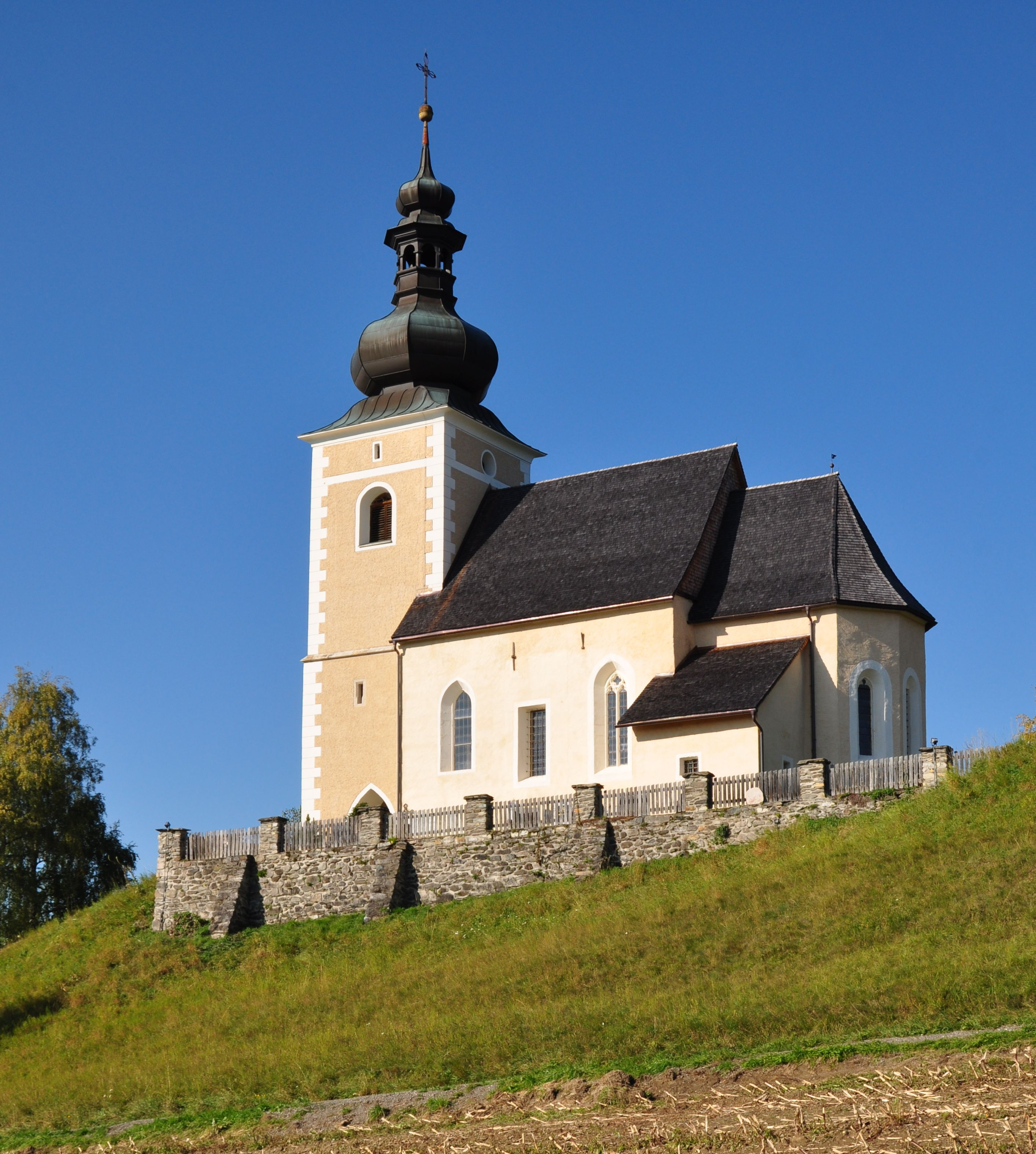 Parish church Saint Andrew and cemetery in Wachsenberg, municipality Steuerberg, district Feldkirchen, Carinthia, Austria, EU